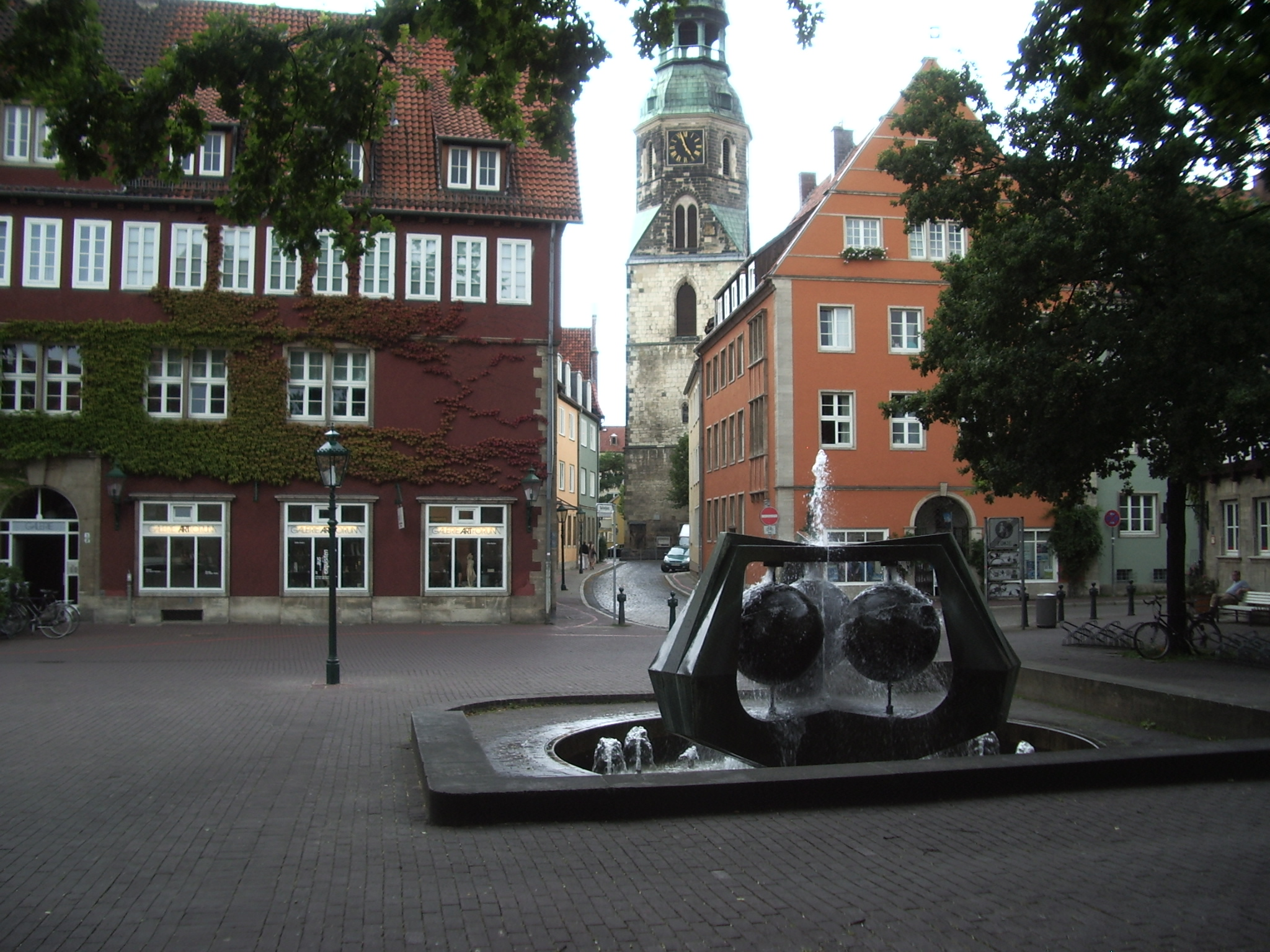 Old Town Fountain, Hanover/Germany